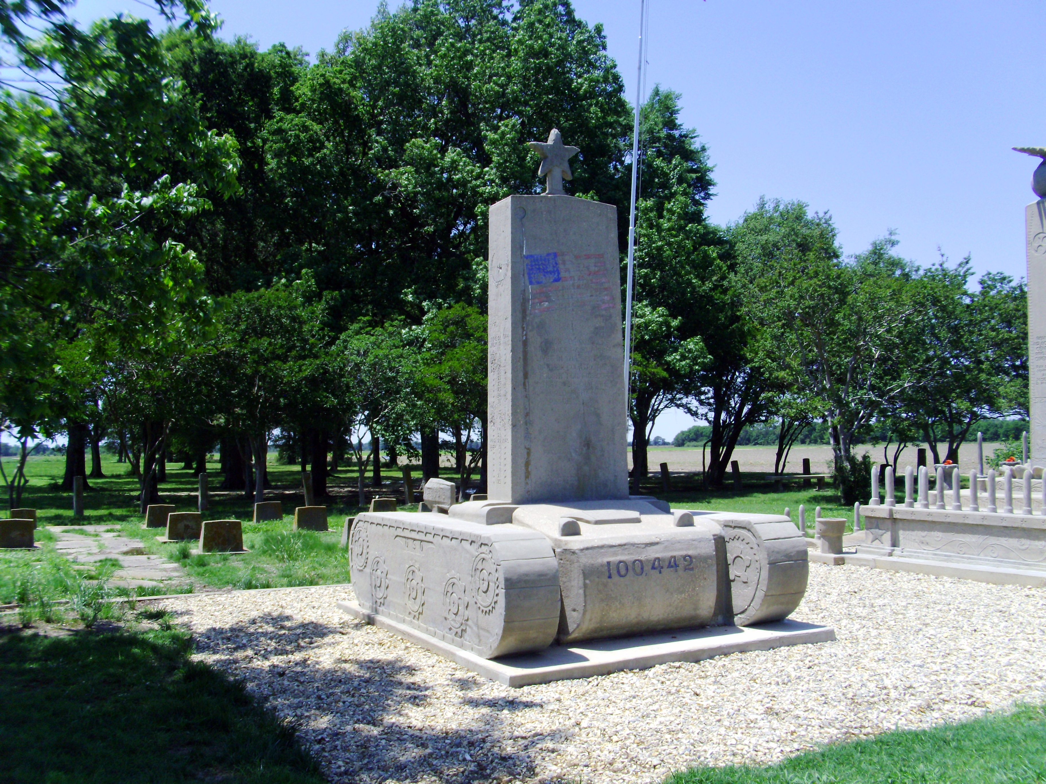 Rohwer War Relocation Center in Rowher, Desha County, AR